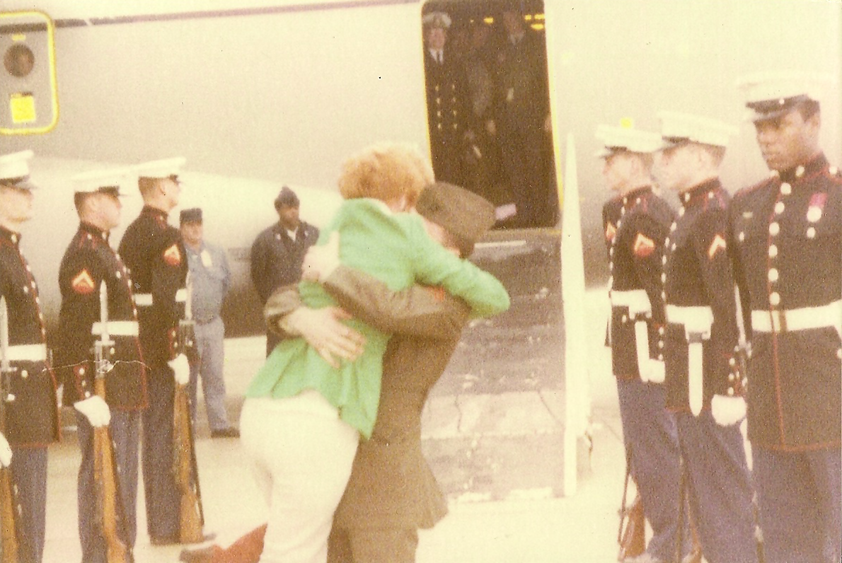 Ken Kraus and his mom